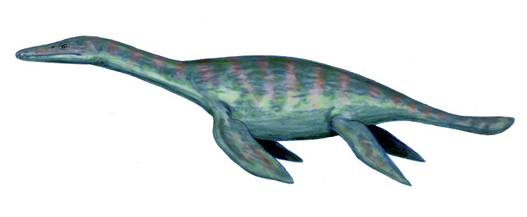 Macroplata tenuiceps, a pliosaur from the Early Jurassic of Europe, pencil drawing